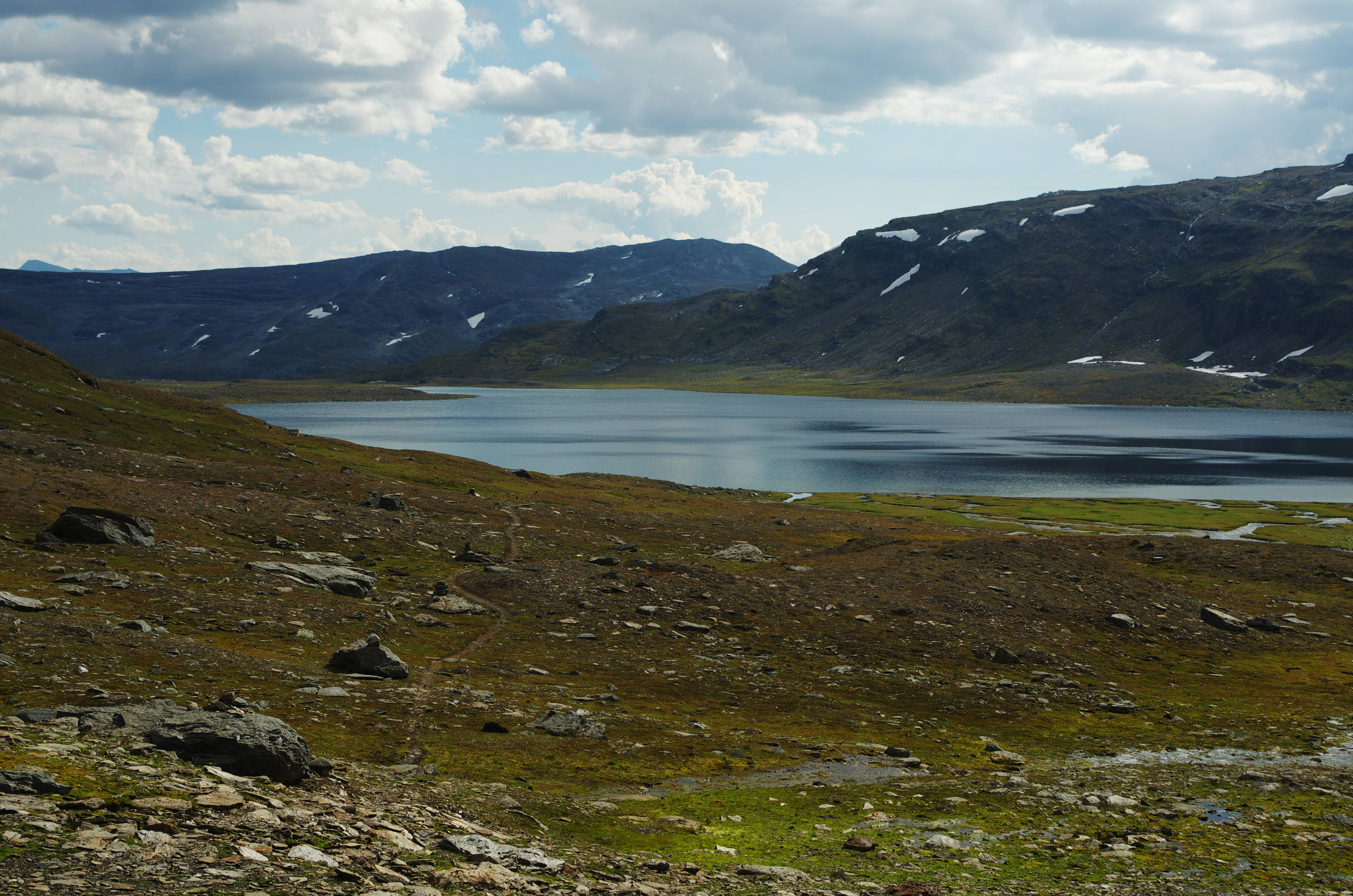 Latnjajaure (Latnjajávri): Lake in Lappland, Sweden